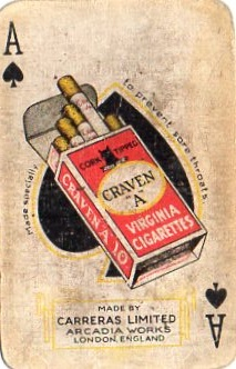 This is a scan of a playing card from a Craven A Cigarettes branded deck. It is the "Death Card", the Ace of Spades and carries the motif "Made Specially to Prevent Sore Throats", the image of a packet of cigarettes and "Made by Carreras Limited Arcadia Works London England".